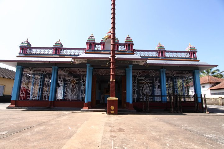 Sri Sitaramachandra Temple